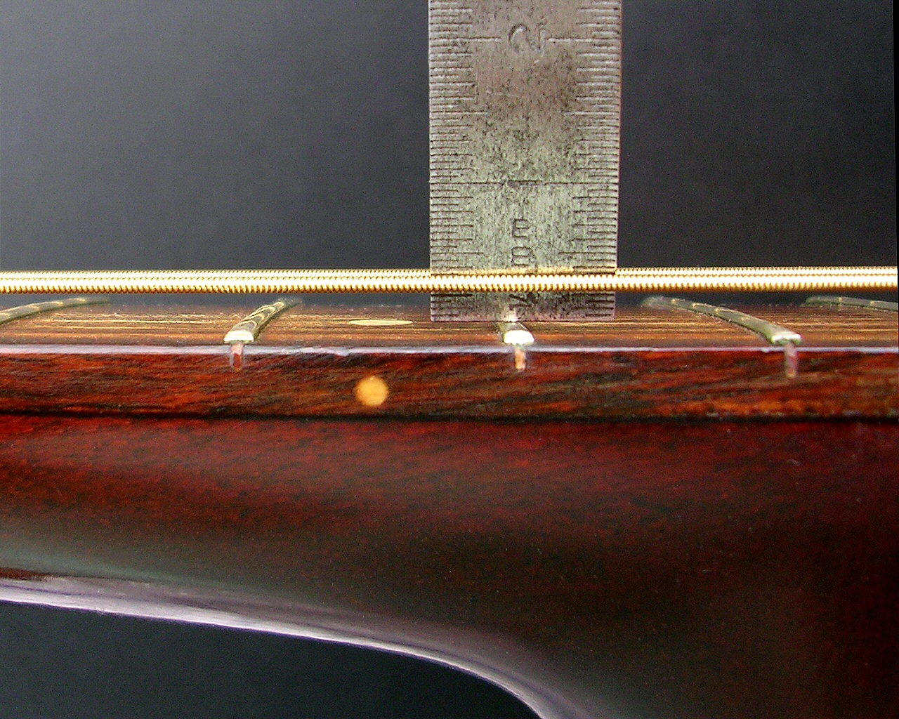 Measurement of guitar "action" (distance between the strings and the fretboard) by the 12th fret